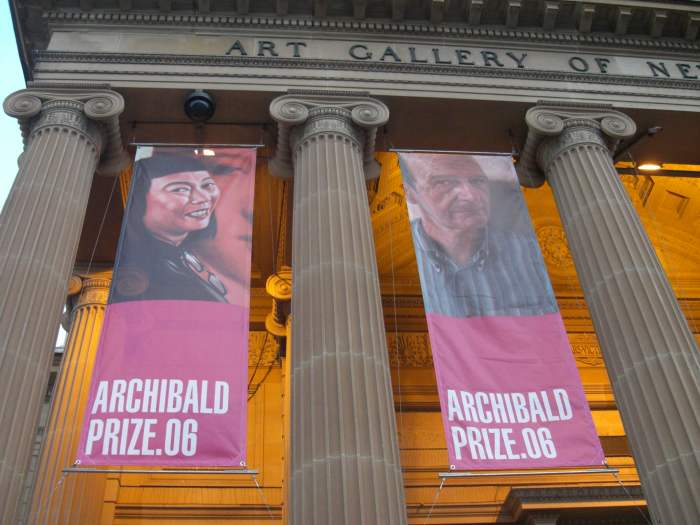 Front of the AGNSW, Sydney. Archibald Prize 2006 advertisements on banners